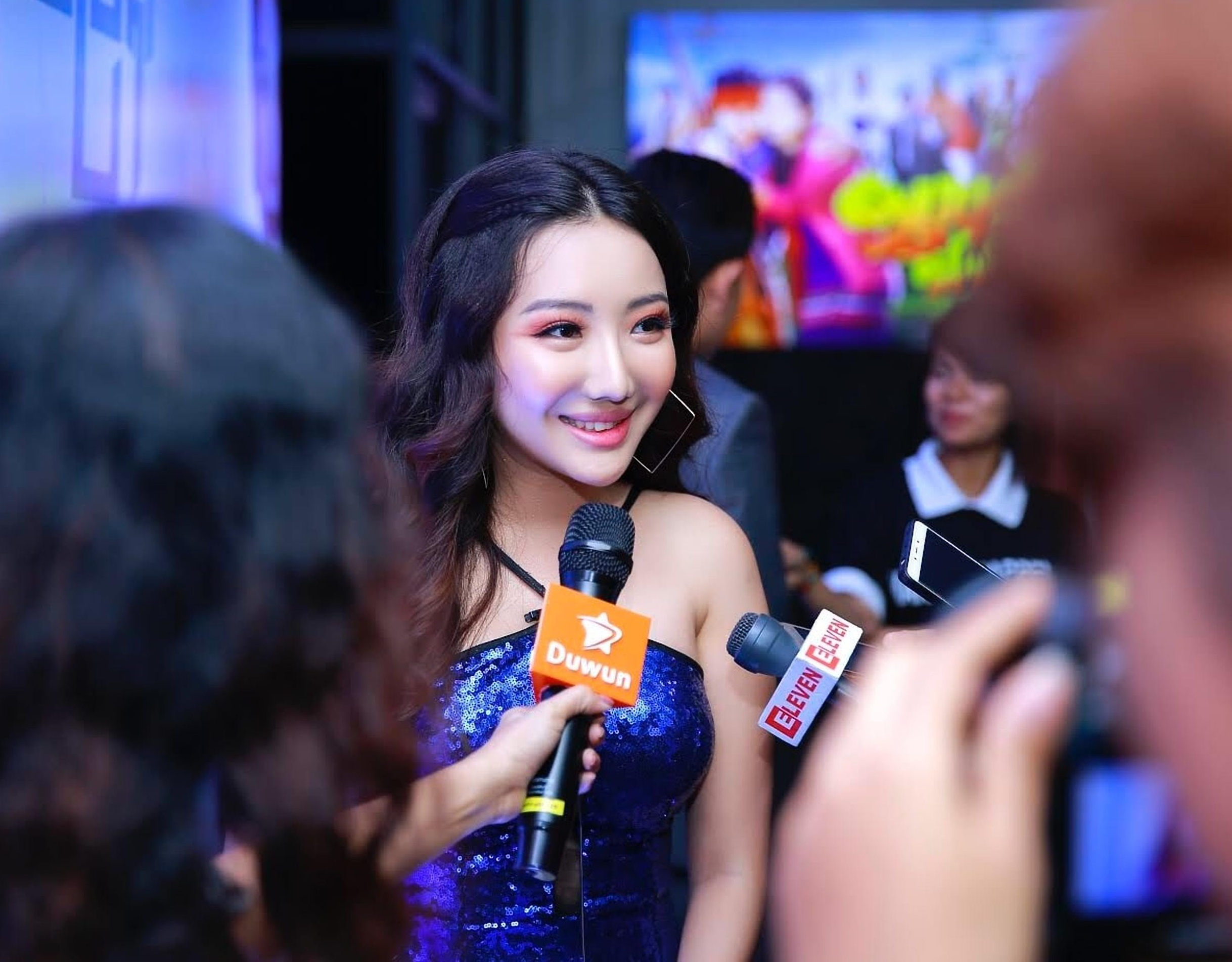 Famous Myanmar actress Hsu Eaint San